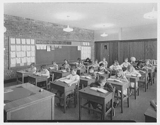 Title: Forest Brook Elementary School, Hauppauge, Long Island. Abstract/medium: Gottscho-Schleisner Collection (Library of Congress) Physical description: 1 negative